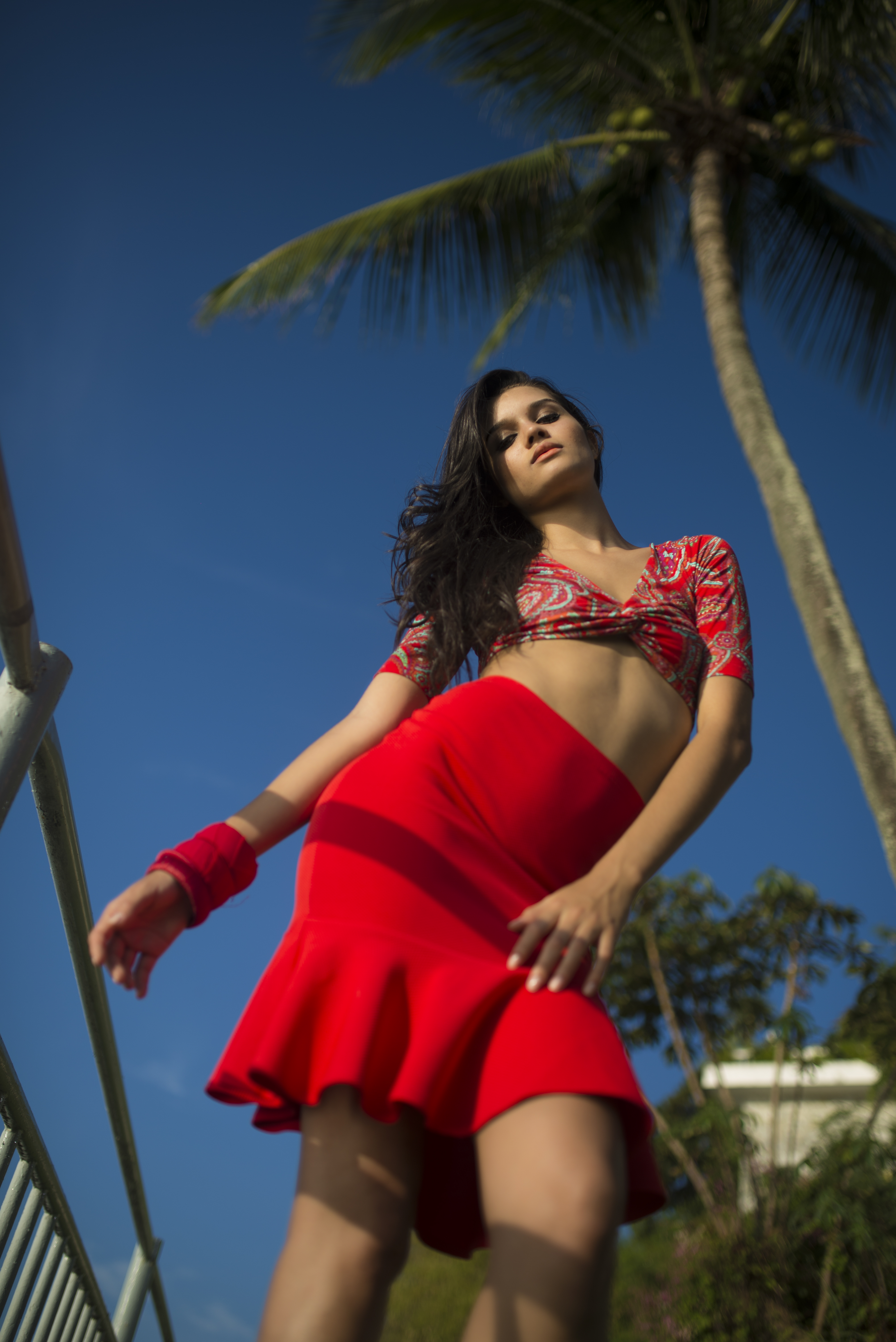 Anne Lima, Miss Bahia, wearing Colcci brand